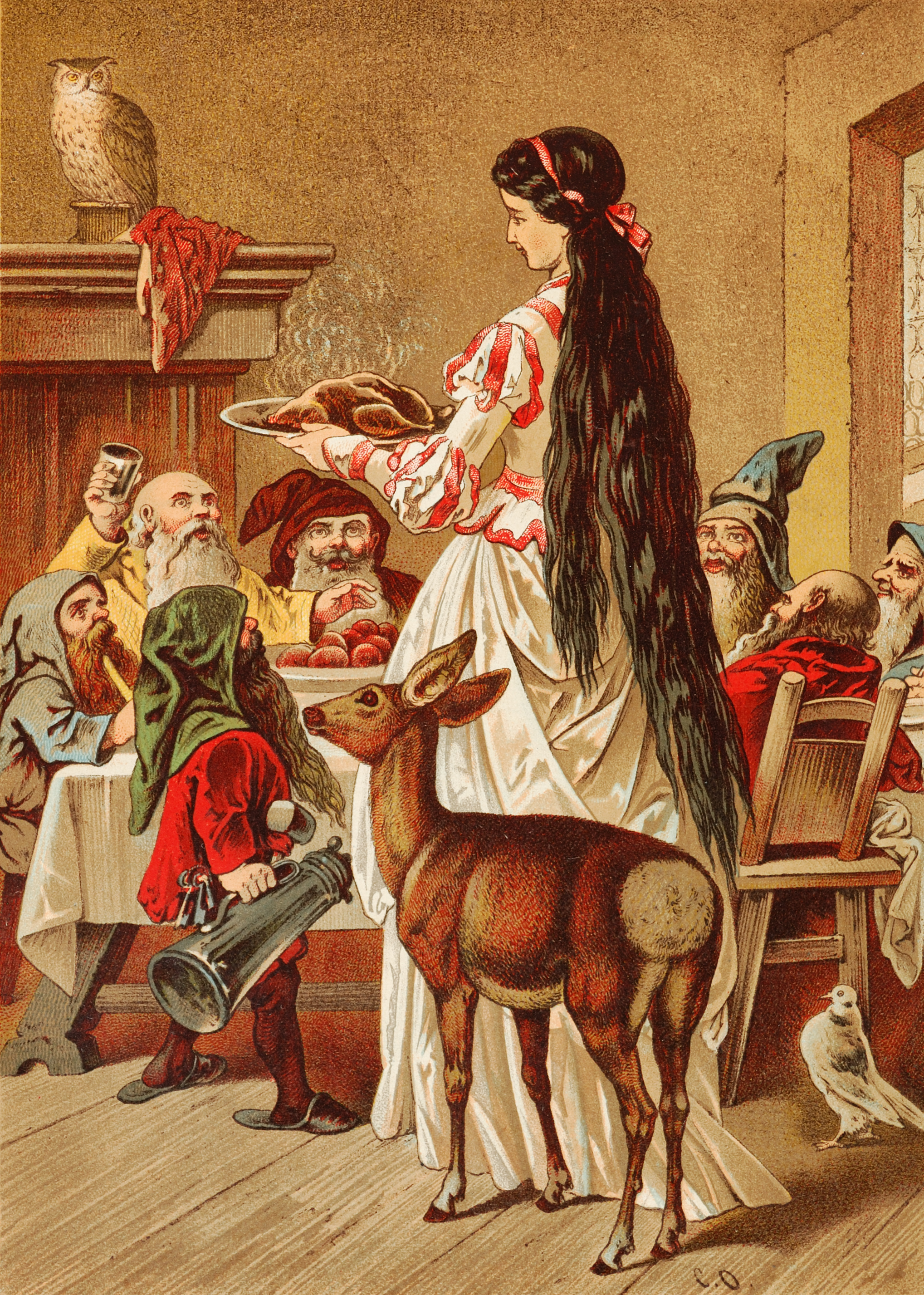 Snow White, illustration by Carl Offterdinger